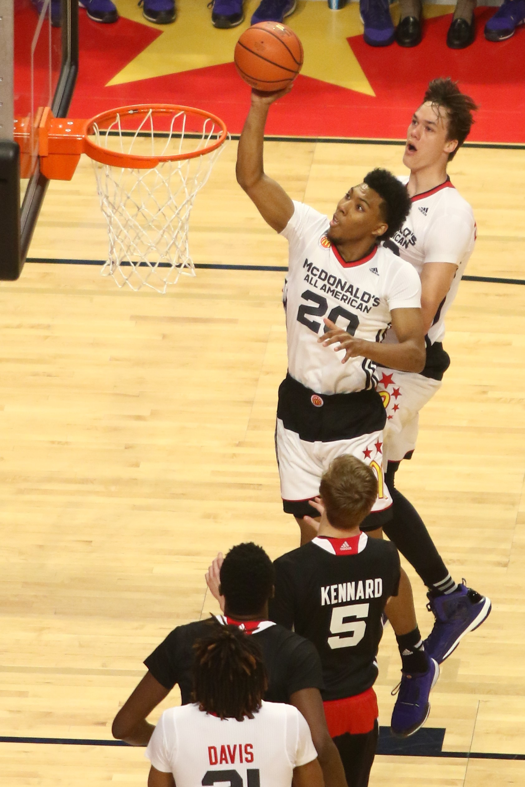 Allonzo Trier as Stephen Zimmerman looks on in the w:2015 McDonald's All-American Boys Game